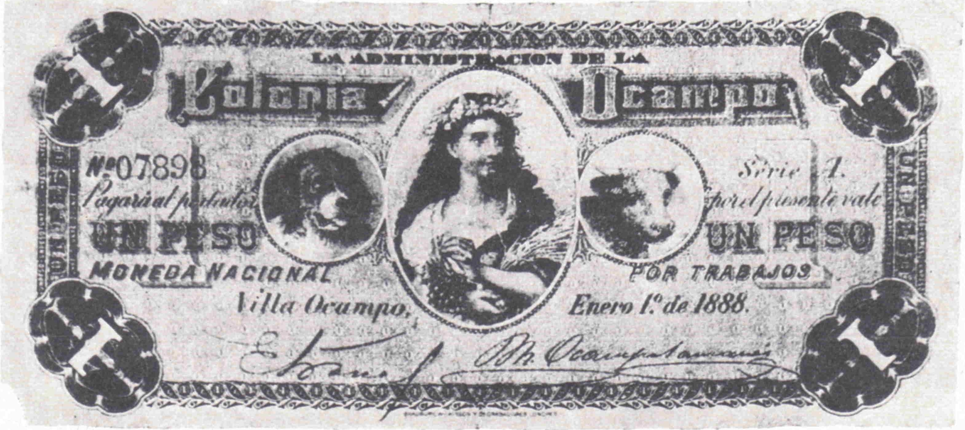 Banknote (used as token coin) by "La Forestal", a British company that operated in Argentina.